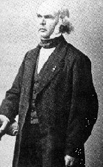 Portrait of the french psychiatrist Jules Baillarger, (1809-1890).